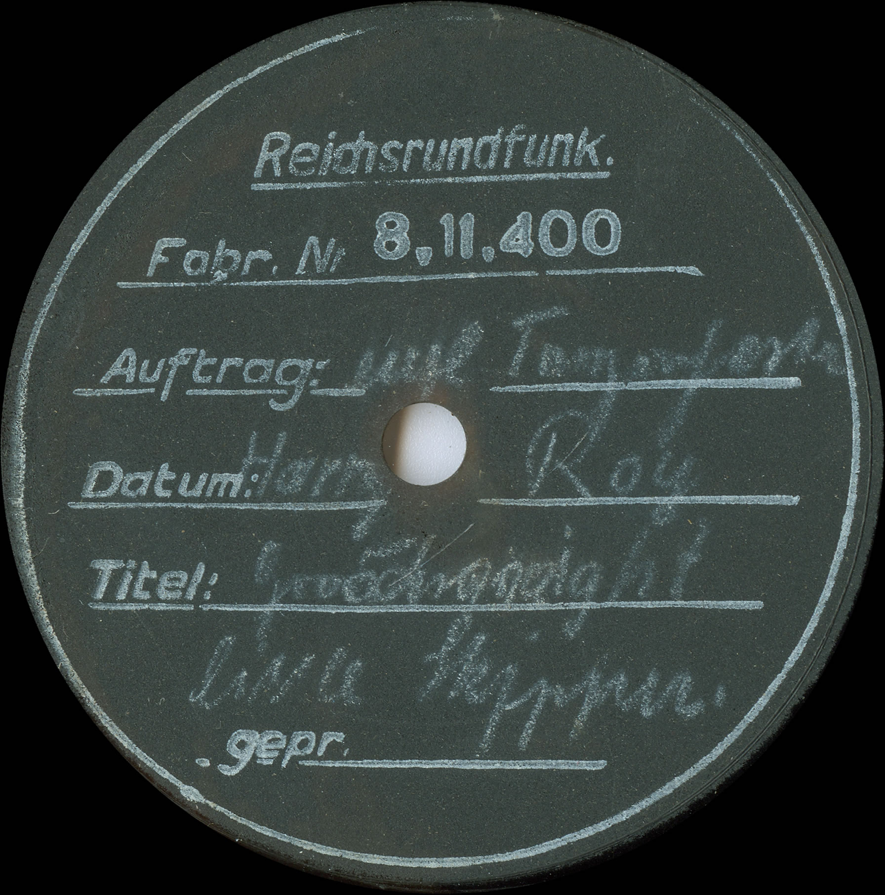 Label/producer: Reichsrundfunk Serial number: 8,11,400 Side: A Content: broadcasting recording with Harry Roy (1900-1971) Audio recording format: 12-inch decelith disc (flexible disc record)